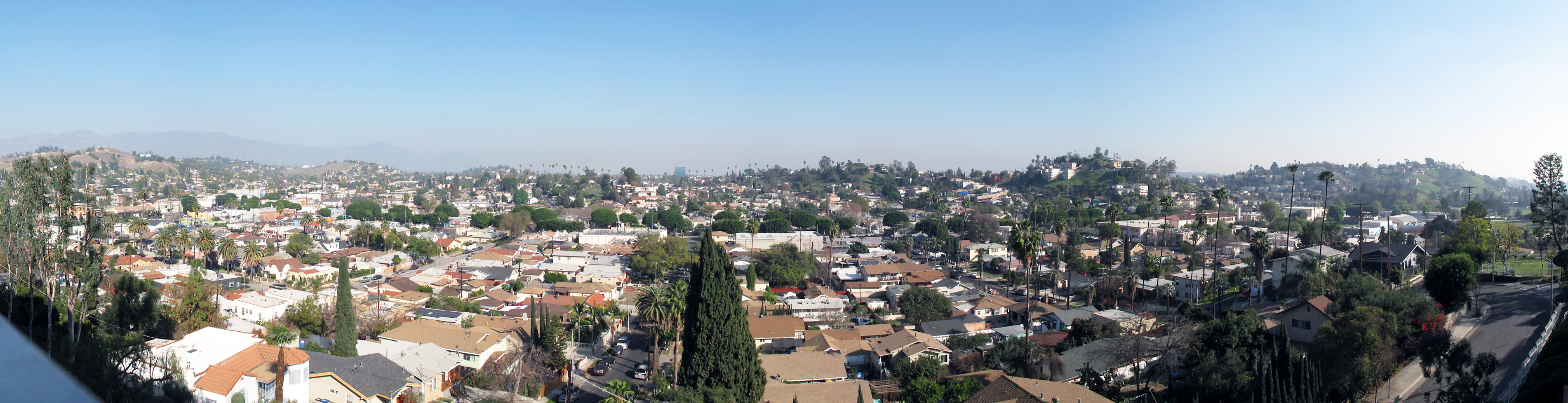 Looking east over El Sereno, Los Angeles. Elephant Hill is to the left.